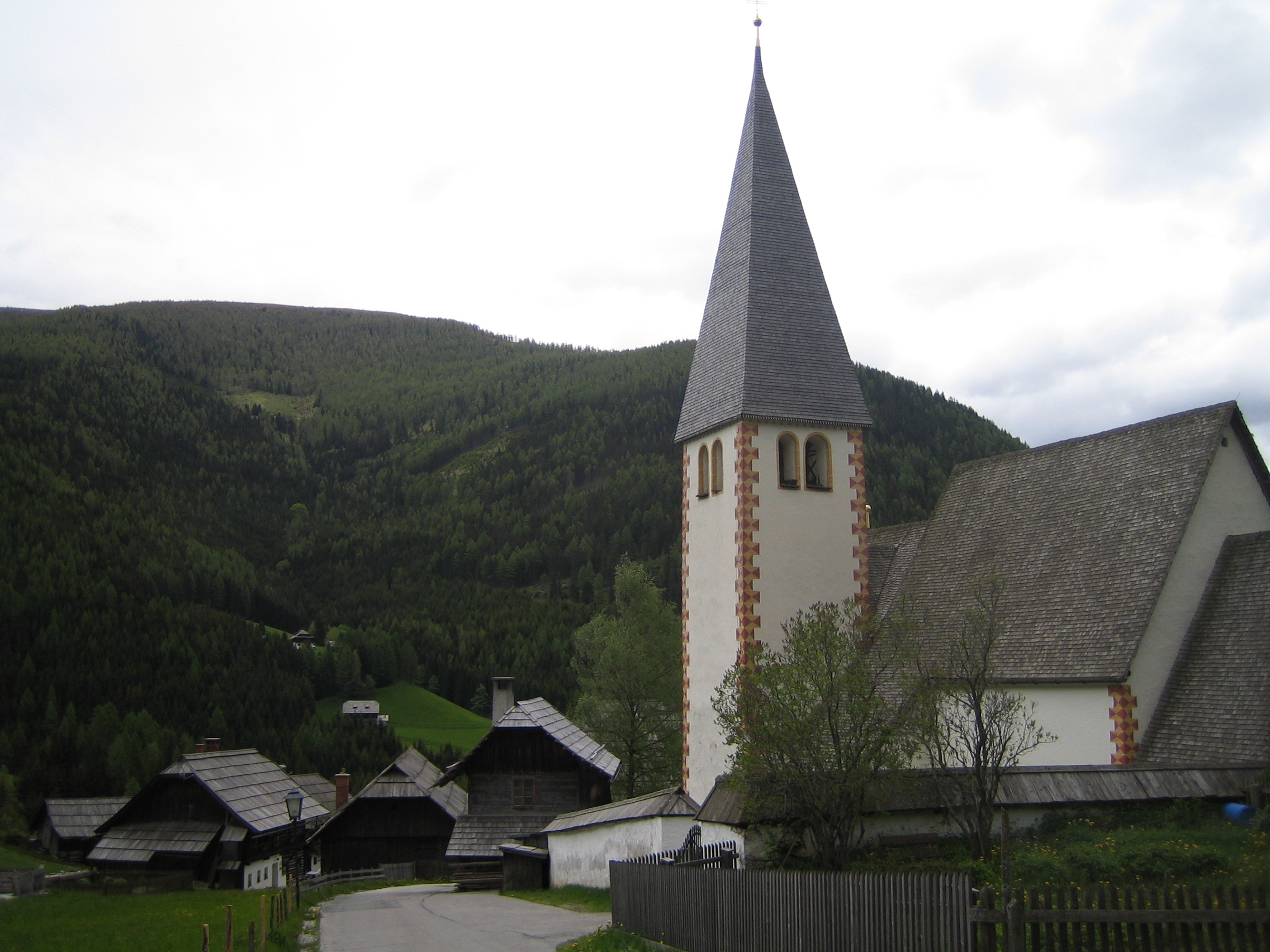 St. Oswald parish church in Bad Kleinkirchheim, a small village in the Central Eastern Alps (Nock Mountains) Carinthia / Austria / European Union.